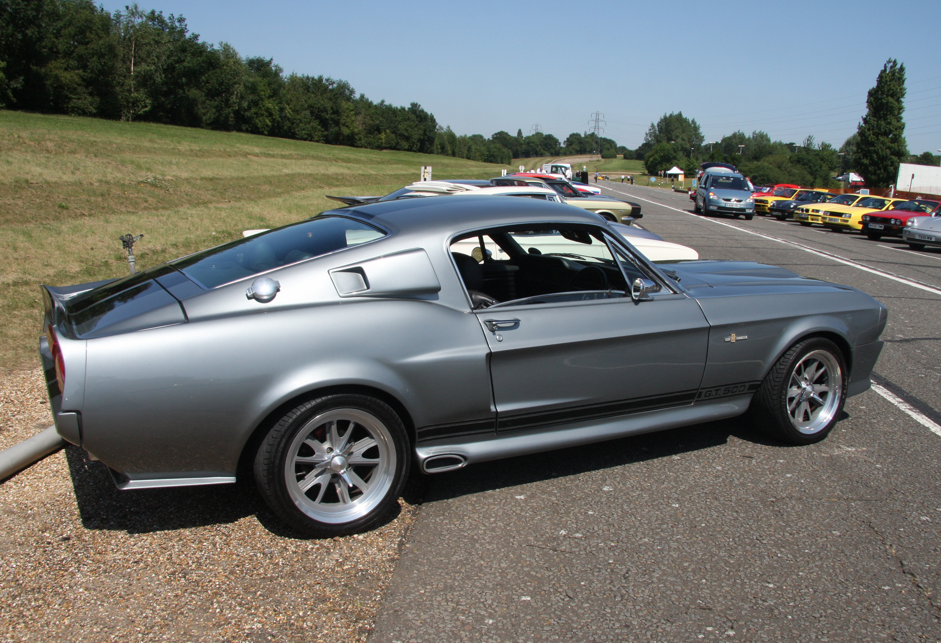 Mill Auto Conversions - EM500R Ford Mustang GT500 replica. It is a Ford Sierra Sapphire underneath.